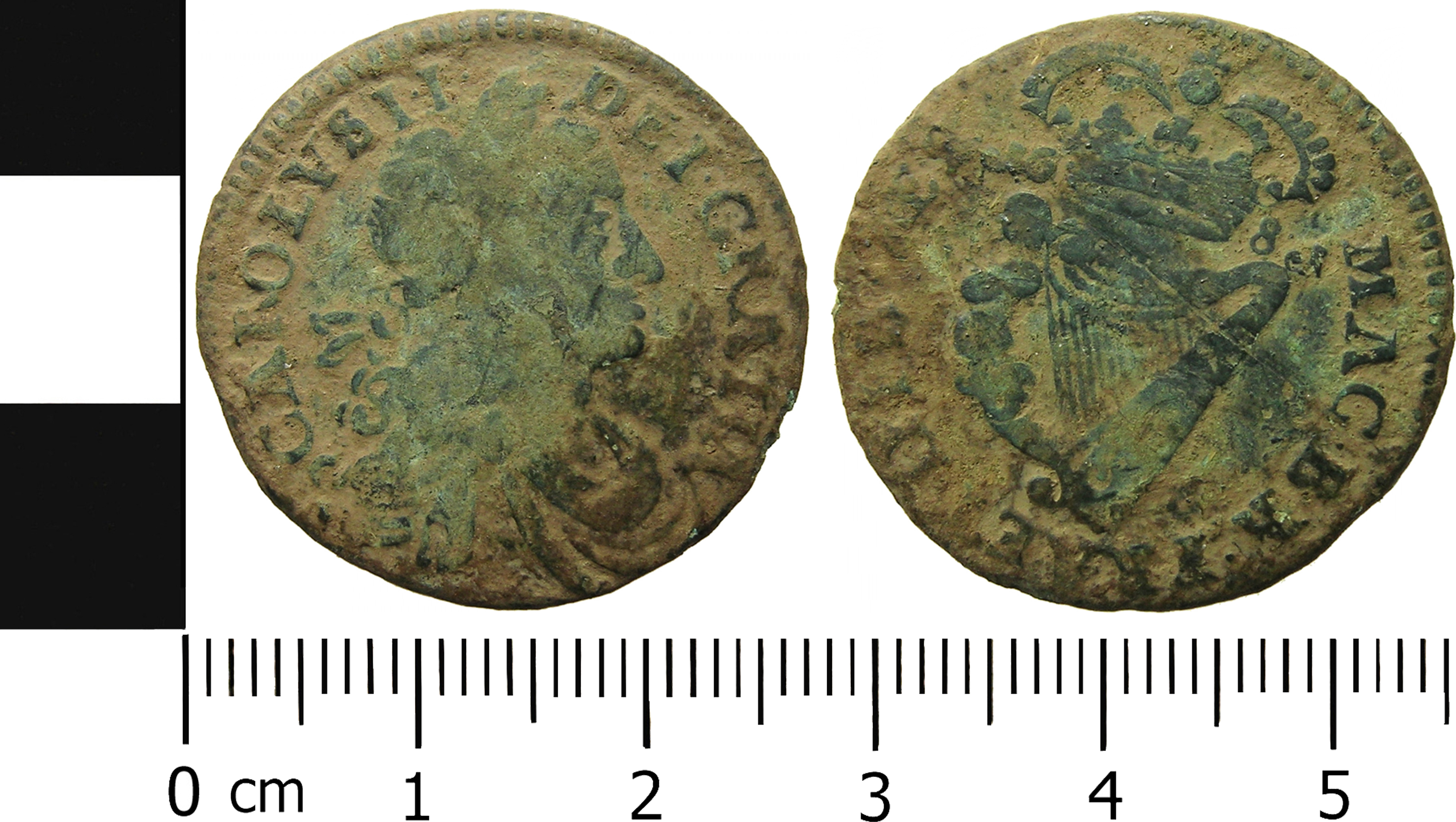 A post-Medieval Irish copper-alloy halfpenny of Charles II (1645-1685). Armstrong and Legge's Coinage, 1680-1684 AD, dated 1681 on coin. Large letter type (Spink 6574). Obverse: CAROLVS I.I./DEI GRATIA; Laureate and draped bust right. Reverse: MAG BR FRA ET HIB REX; Crowned harp.